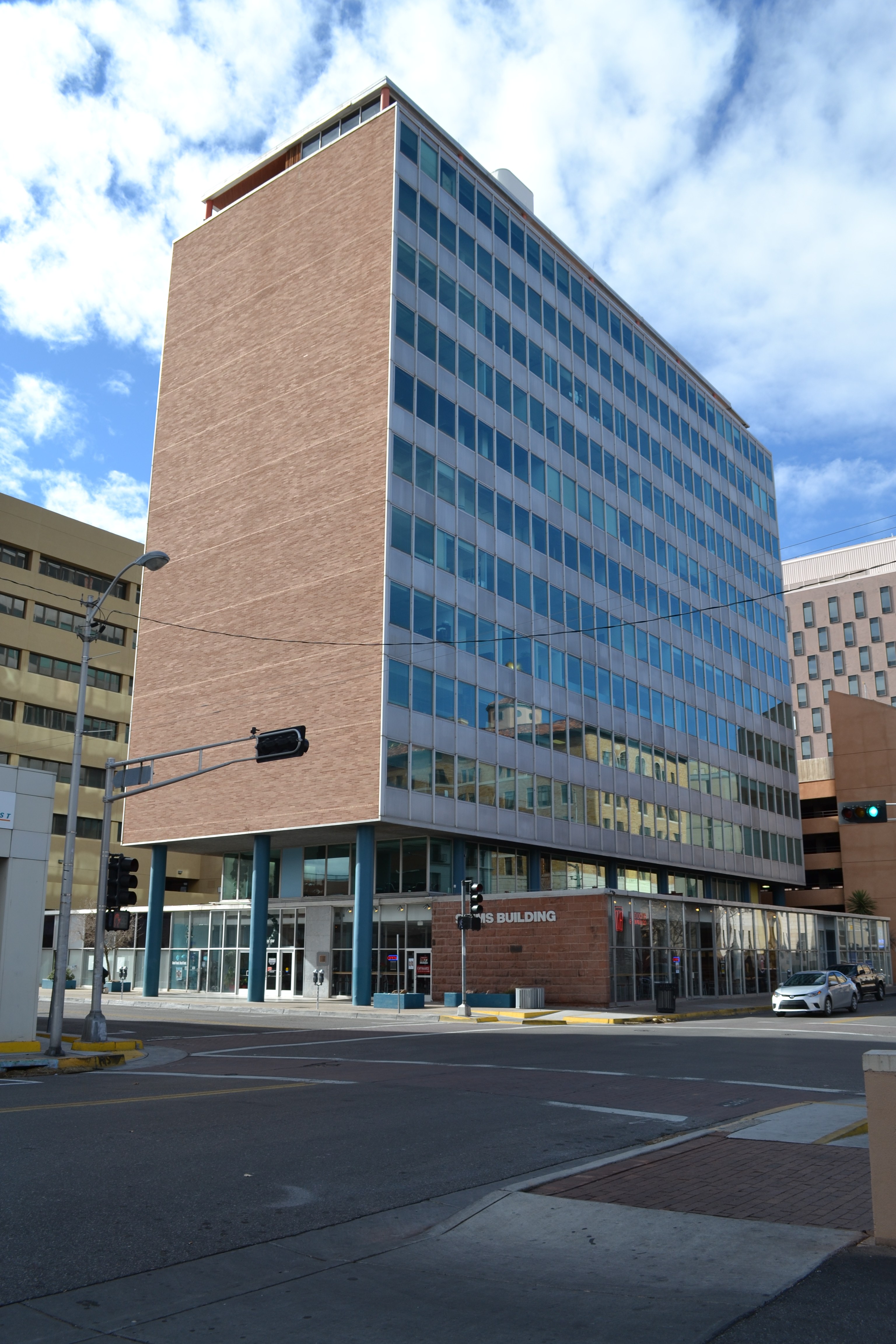 The Simms Building in Albuquerque, New Mexico, USA